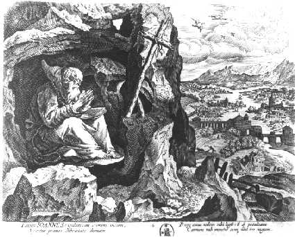 Giovanni Bono, penant, by Johannes and Raphael Sadeler, 16th cent., plate in Solitudo sive vita Patrum eremicularum. Amsterdam, Rijkmuseum